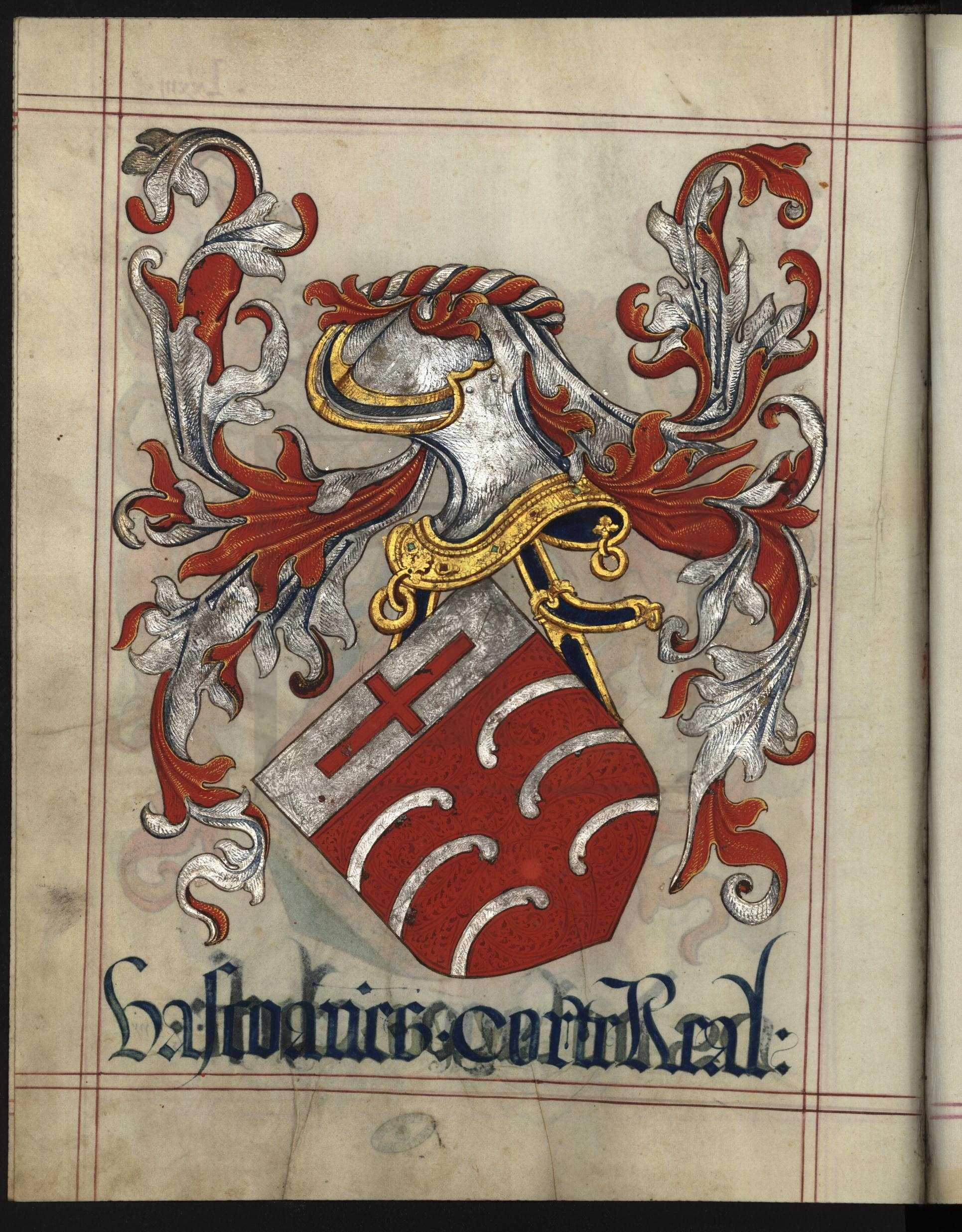 Coat of arms of Vasco Anes Corte-Real, as they appear at the Livro do Armeiro-Mor by the King of Arms João do Cró.